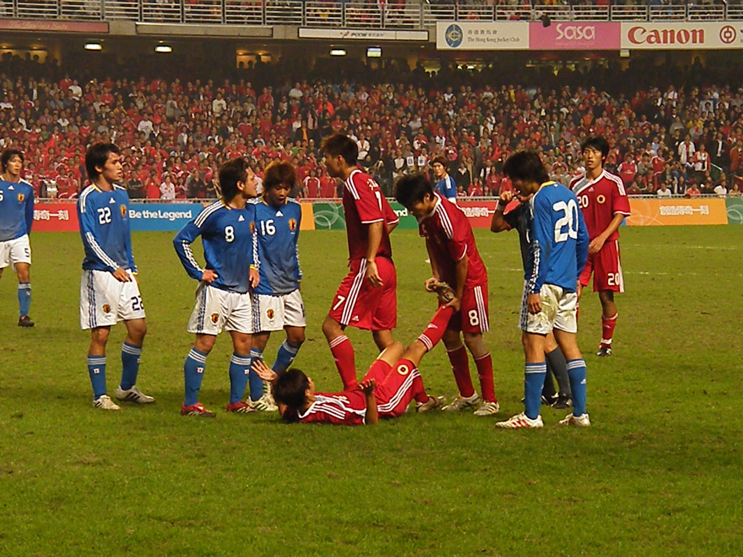 2009 East Asian Games Football Final Match - Hong Kong, China vs Japan at Hong Kong Stadium on 2009.12.12.